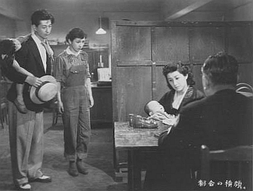 Ryō Ikebe, Ineko Arima and Michiyo Kogure in Tokai no yokogao (都会の横顔) directed by Hiroshi Shimizu - 1953